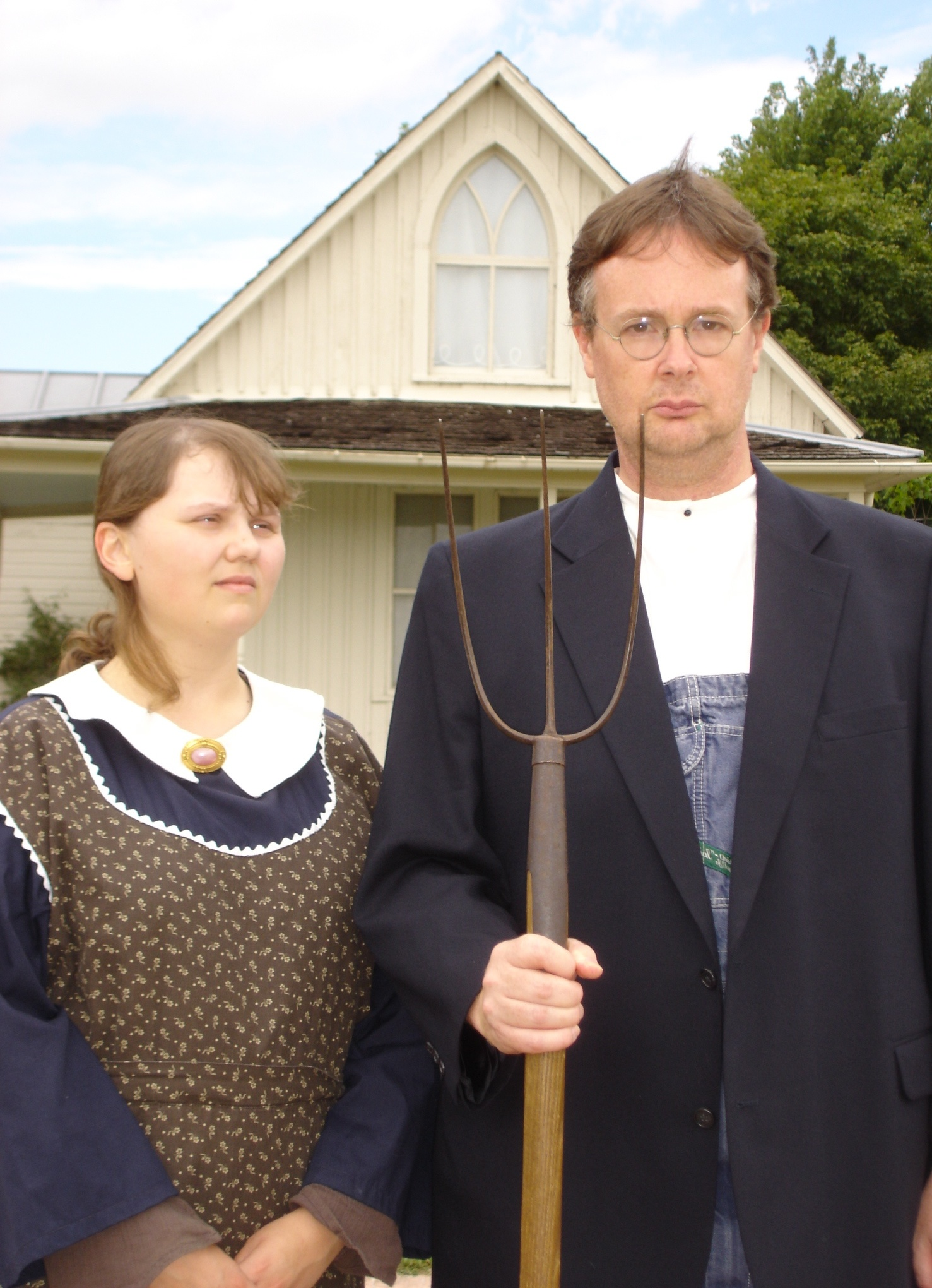 Author and owner: John Kirriemuir URL: Notes: The American Gothic house, as painted by Grant Wood, in the background. The nearby visitor center have various clothes, a pitchfork, glasses, that visitors can dress up in and have their photograph taken, in front of the house, parodying the original painting. The picture shows John Kirriemuir and Becky Yoose in such clothing.